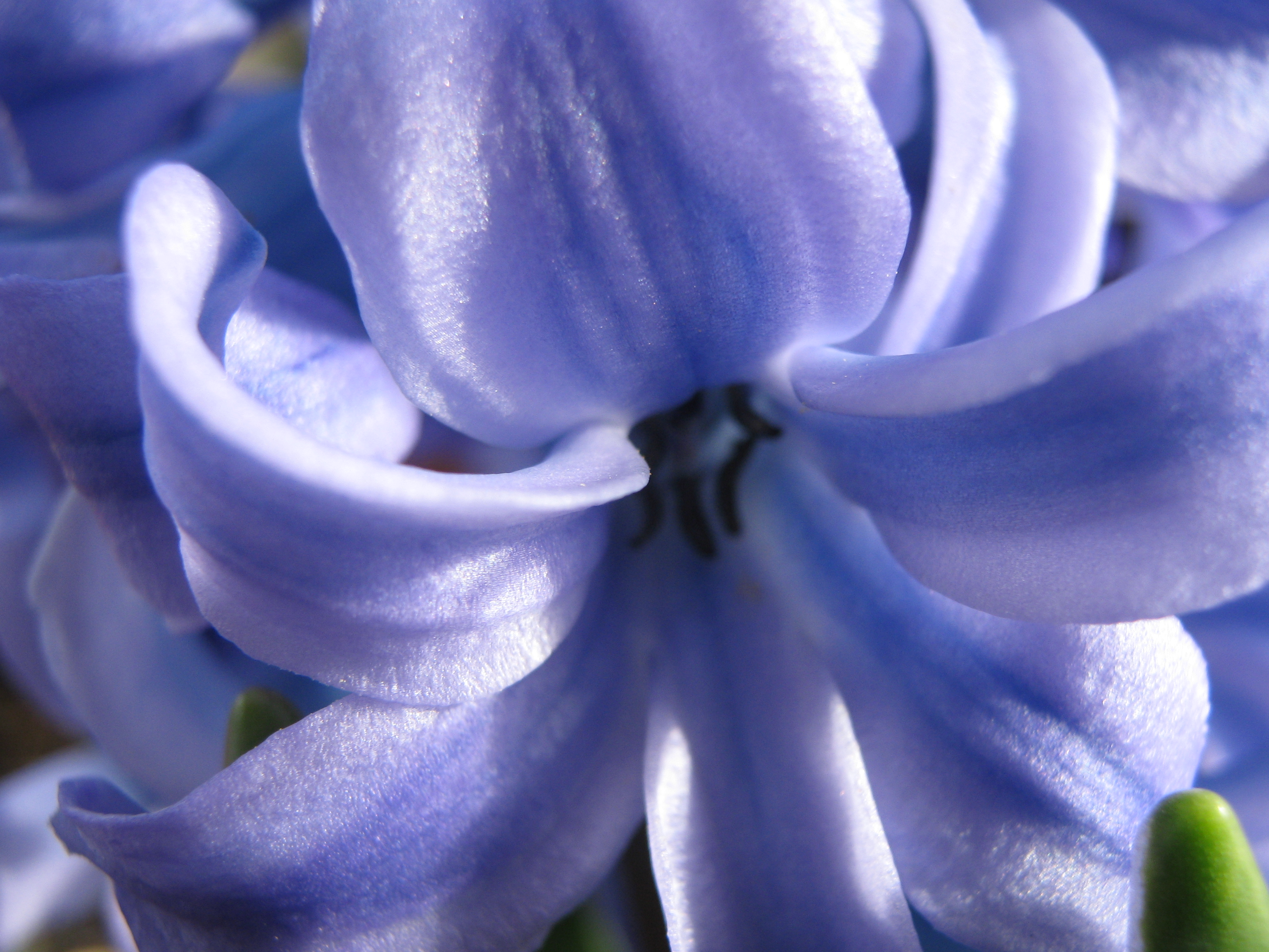 Close up on a Common Hyacinth